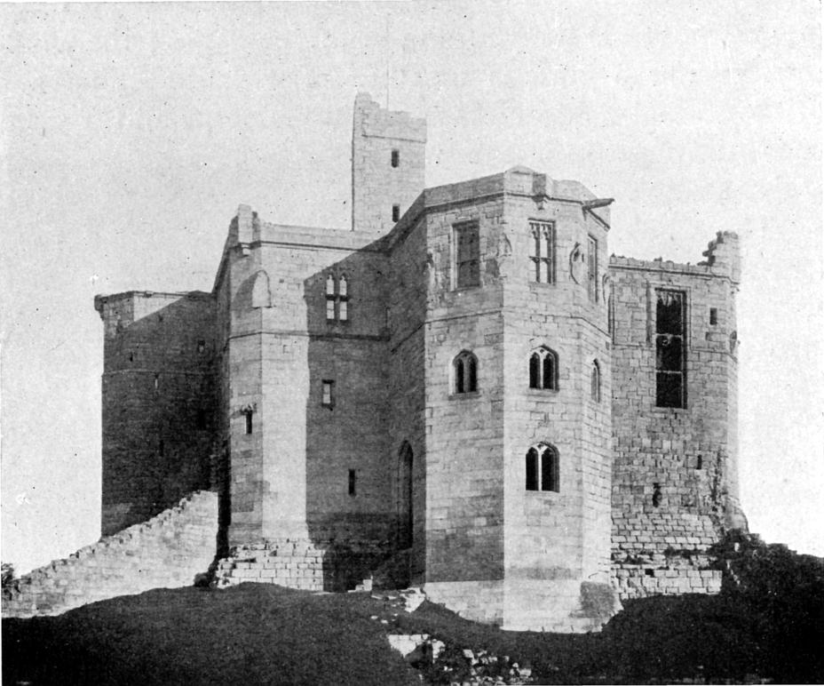 Warkworth Castle